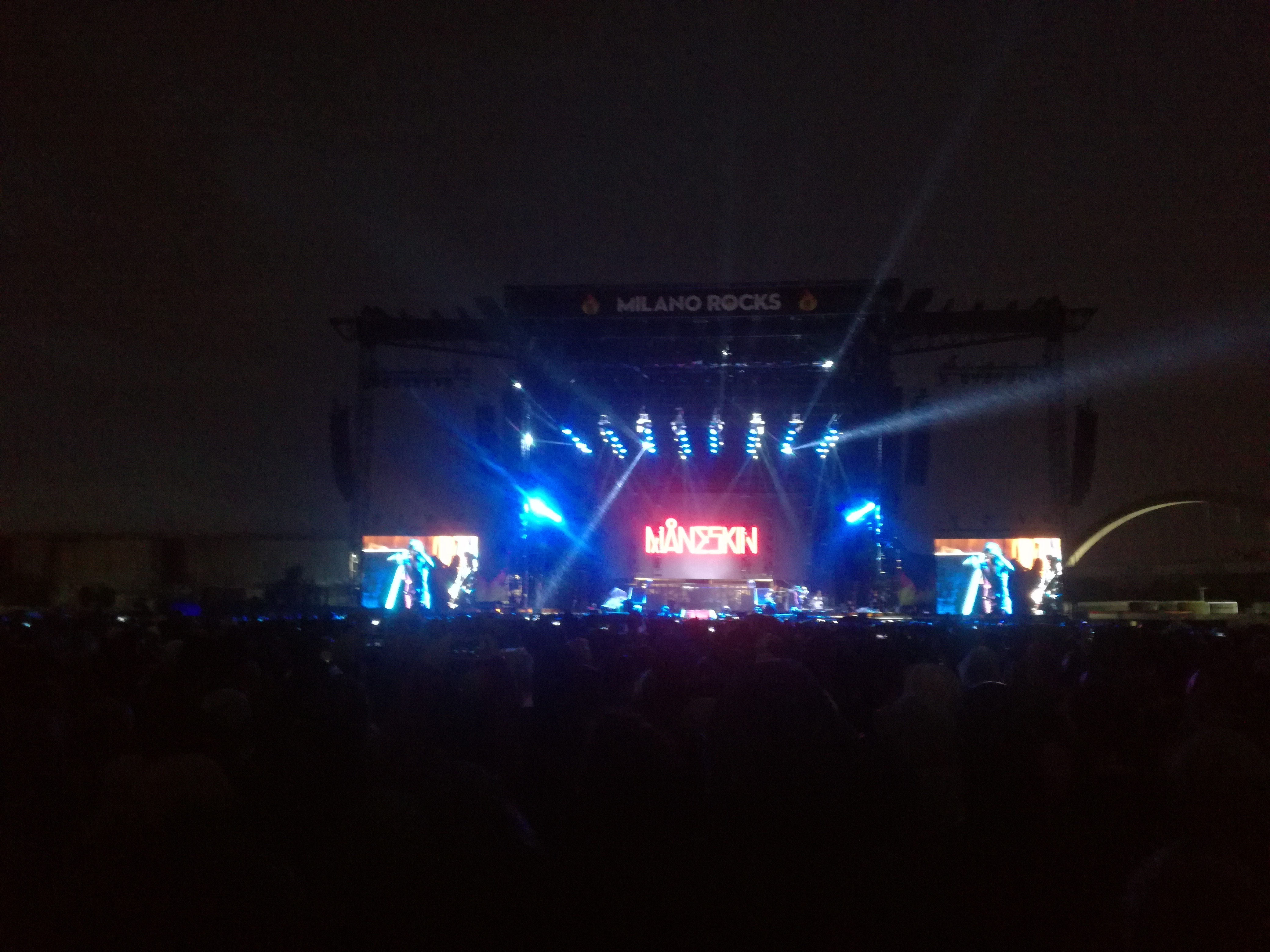 Måneskin at Milano Rock 2018